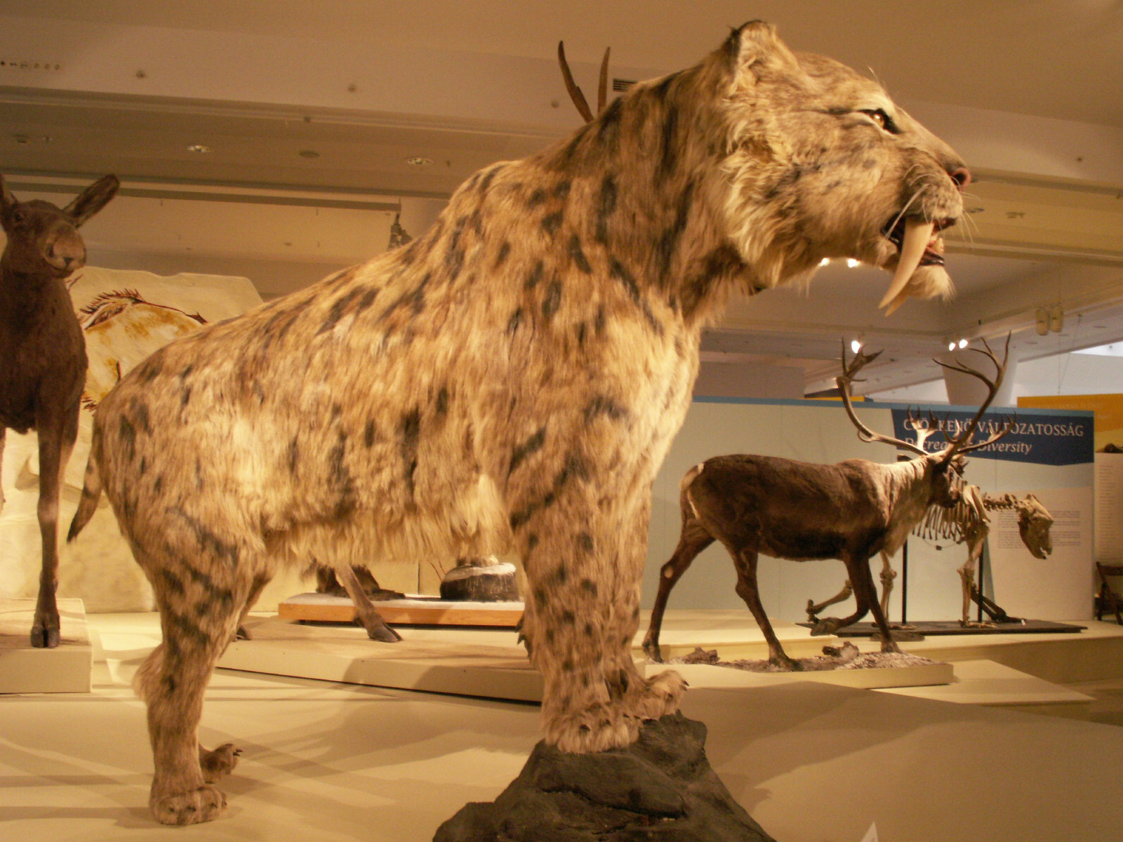 Smilodon populator, Hungarian Natural History Museum